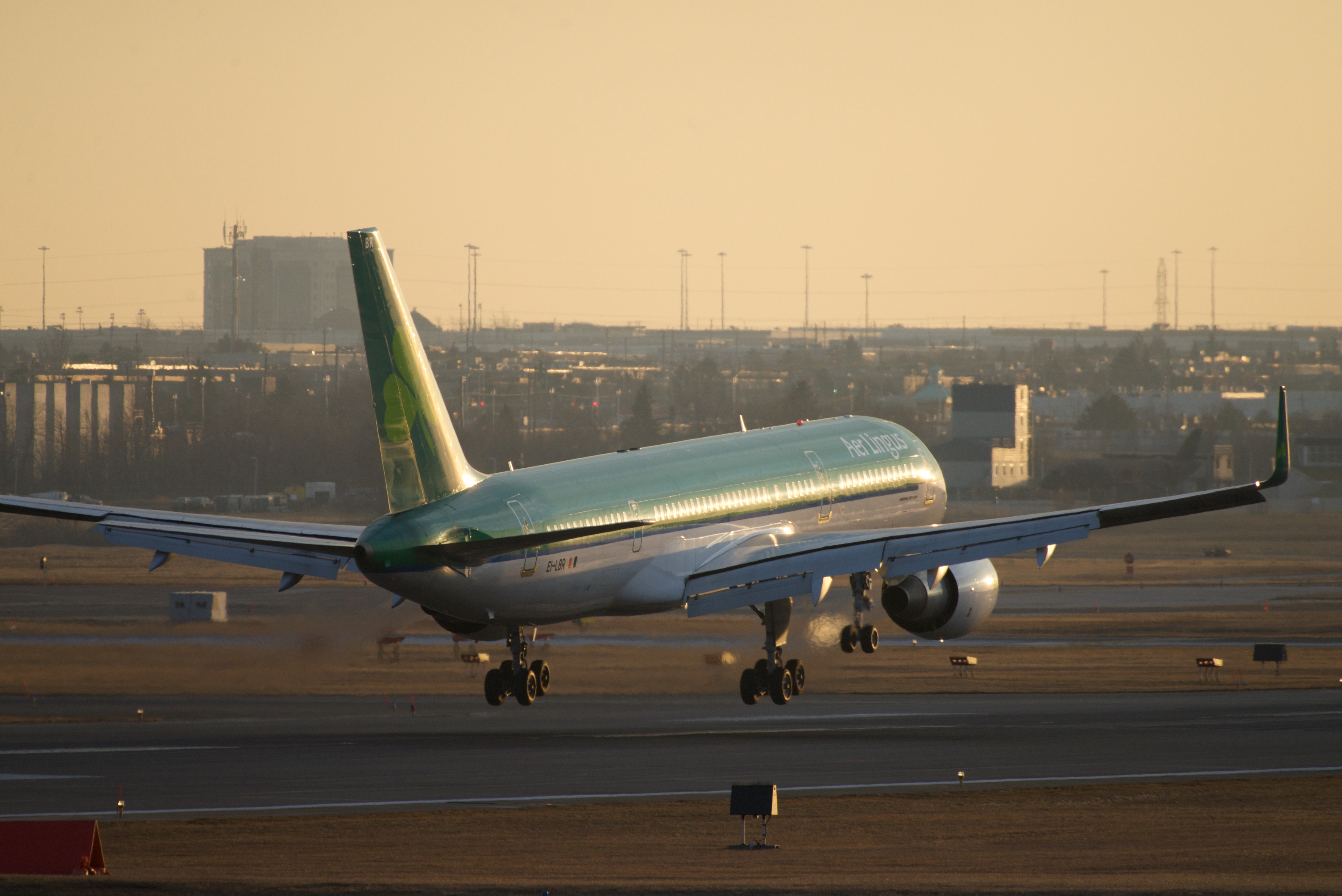 Reaching for the runway